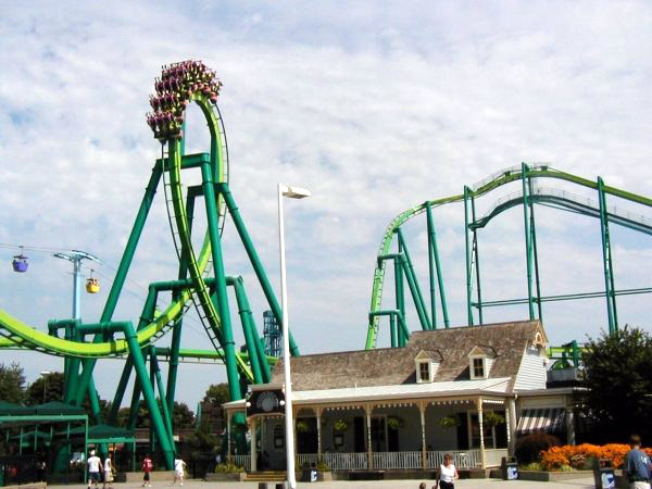 The Raptor roller coaster at Cedar Point. Photo taken by Nick Nolte on August 30, 2001.